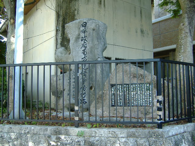 Monument of Government of Japan Liaison Office